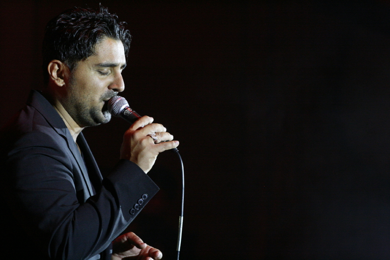 Pouya concert Malaysia 2009.